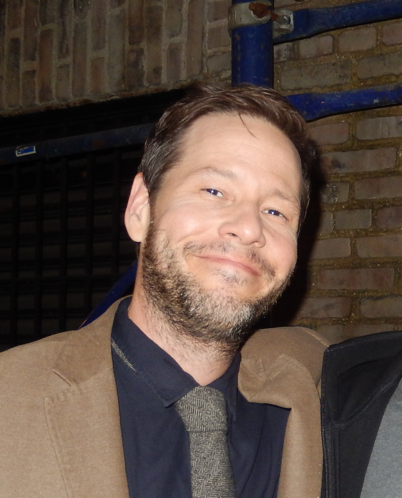 Star of MadTV, Neighbors, Snatched. NYC Oct. '18.